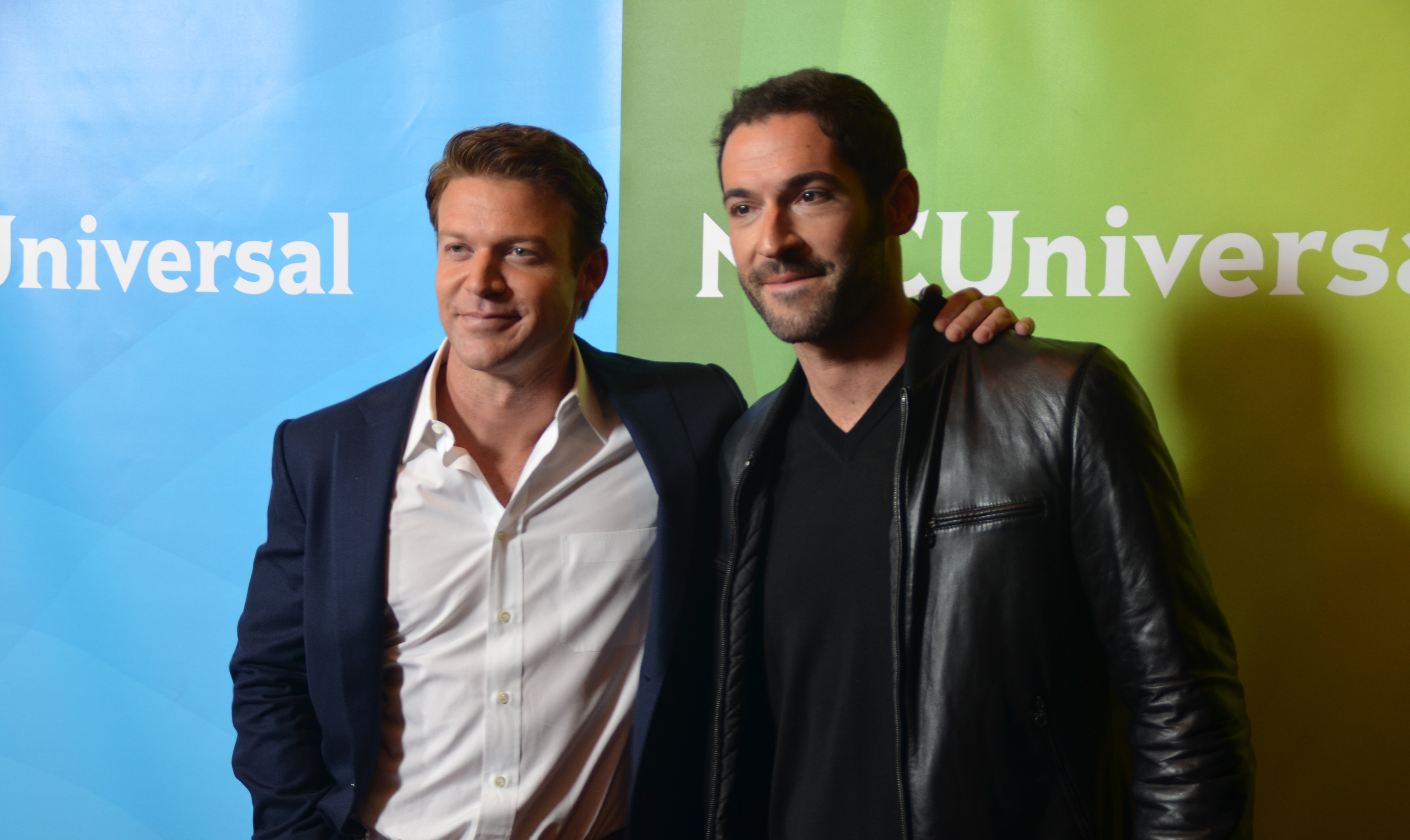 Mingle Media TV and Red Carpet Report hosts Ashley Harrington and Oriana Leo were invited to come out to NBCUniversal's 2014 Summer TCA Tour to meet the cast and creators of their new 2014-2015 TV shows at The Beverly Hilton Hotel, July 13-14th, 2014 in Beverly Hills, California. Get the Story from the Red Carpet Report Team, follow us on Twitter and Facebook at: About the TCA's The Television Critics Association is a non-profit organization of professional, full-time TV writers and critics covering the television industry for newspapers, magazines and advertiser-supported online sites. TCA holds twice-yearly press tours in the Los Angeles area for members that allows face-to-face contacts with network executives, producers and actors. NBC 2014-2015 Lineup Find out more about the new shows, returning shows and what's on this summer at For more of Mingle Media TV's Red Carpet Report coverage, please visit our website and follow us on Twitter and Facebook here: Follow Our Hosts, Oriana Leo & Ashley Harrington on Twitter at